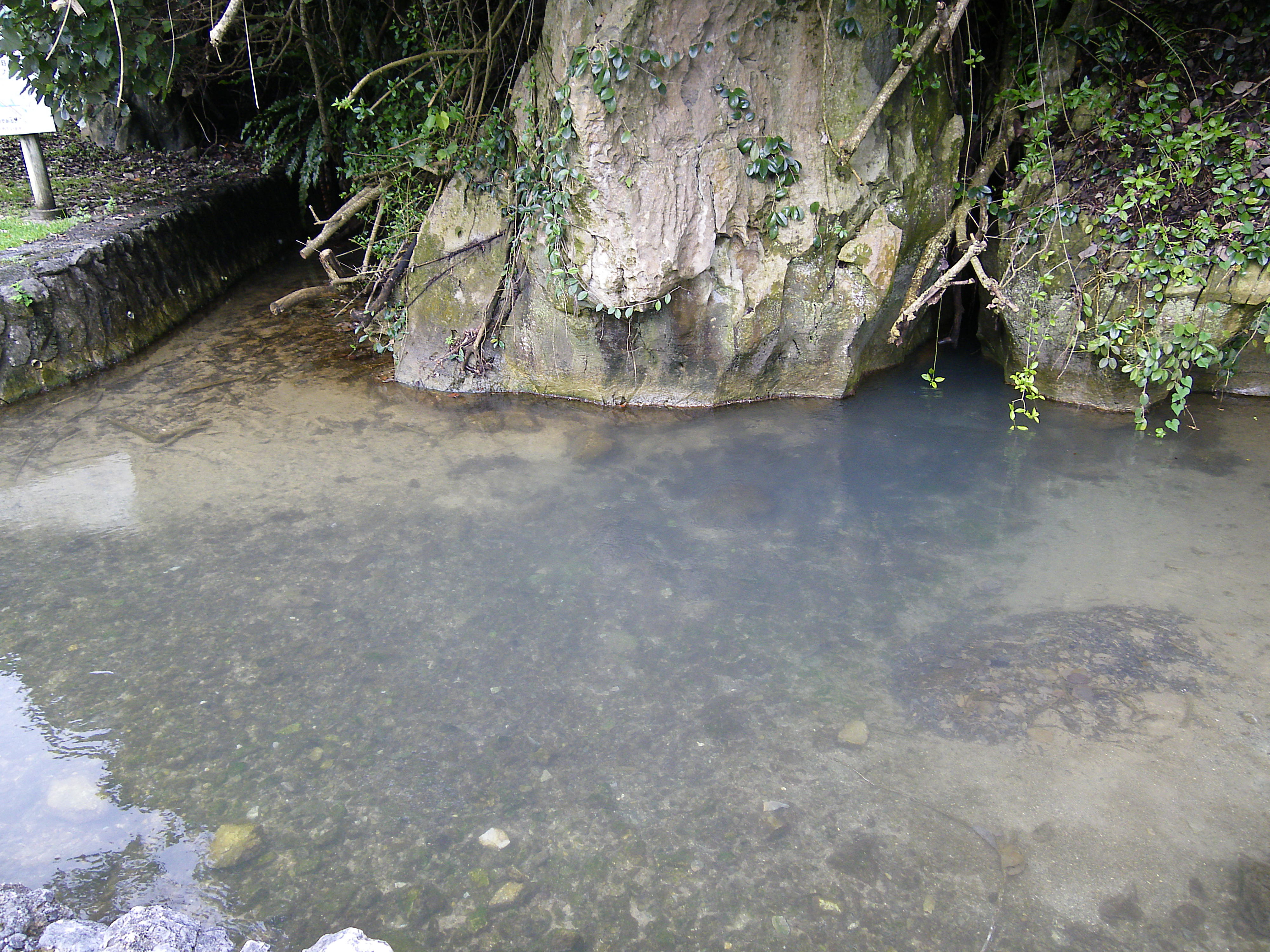 The source of Shiokawa(salt river), Motobu, Okinawa, Japan.